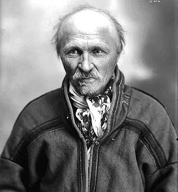 Portrait of Johan Turi, Sami author